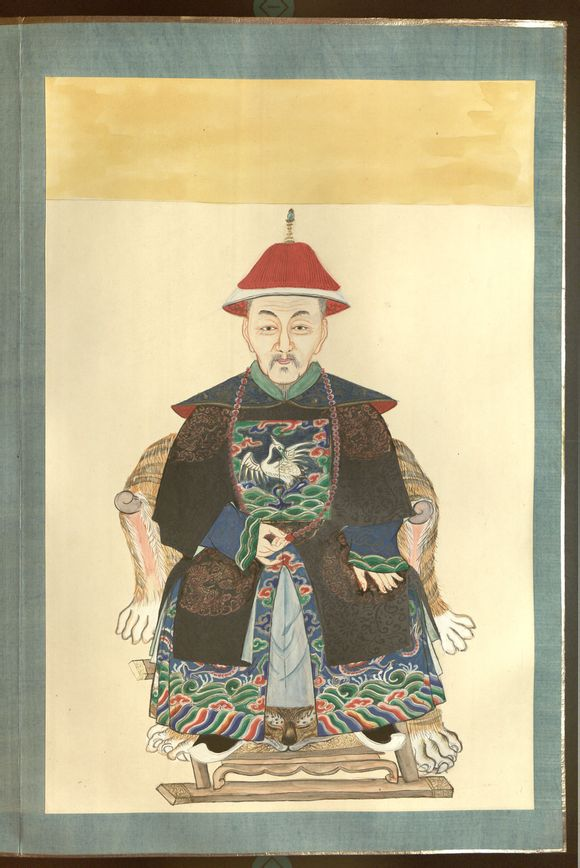 Mu Zhong, a local commander of Lijiang